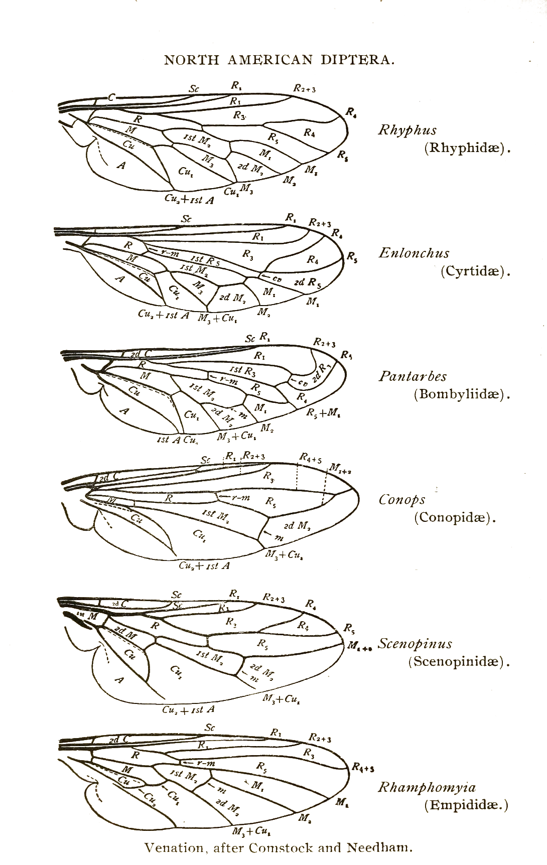 Williston, Samuel Wendell Manual of North American Diptera New Haven :J. T. Hathaway,1908.Third Edition Wing Venation figures15-20 Rhyphidae synonym for Anisopodidae Cyrtidae synonym for Acroceridae Bombyliidae Conopidae Scenopinidae Empididae